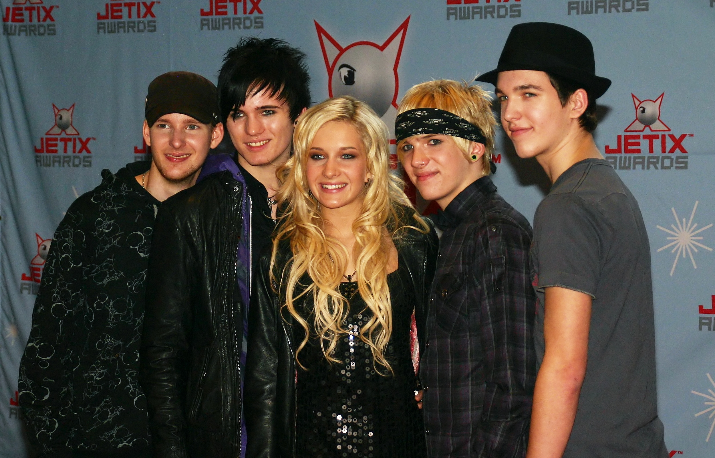 Rockband "Aloha from Hell" during the conferment of the JETIX Award at the youth fair "YOU", Berlin